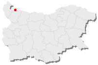 Map of Bulgaria, the red point is the position of Lom.